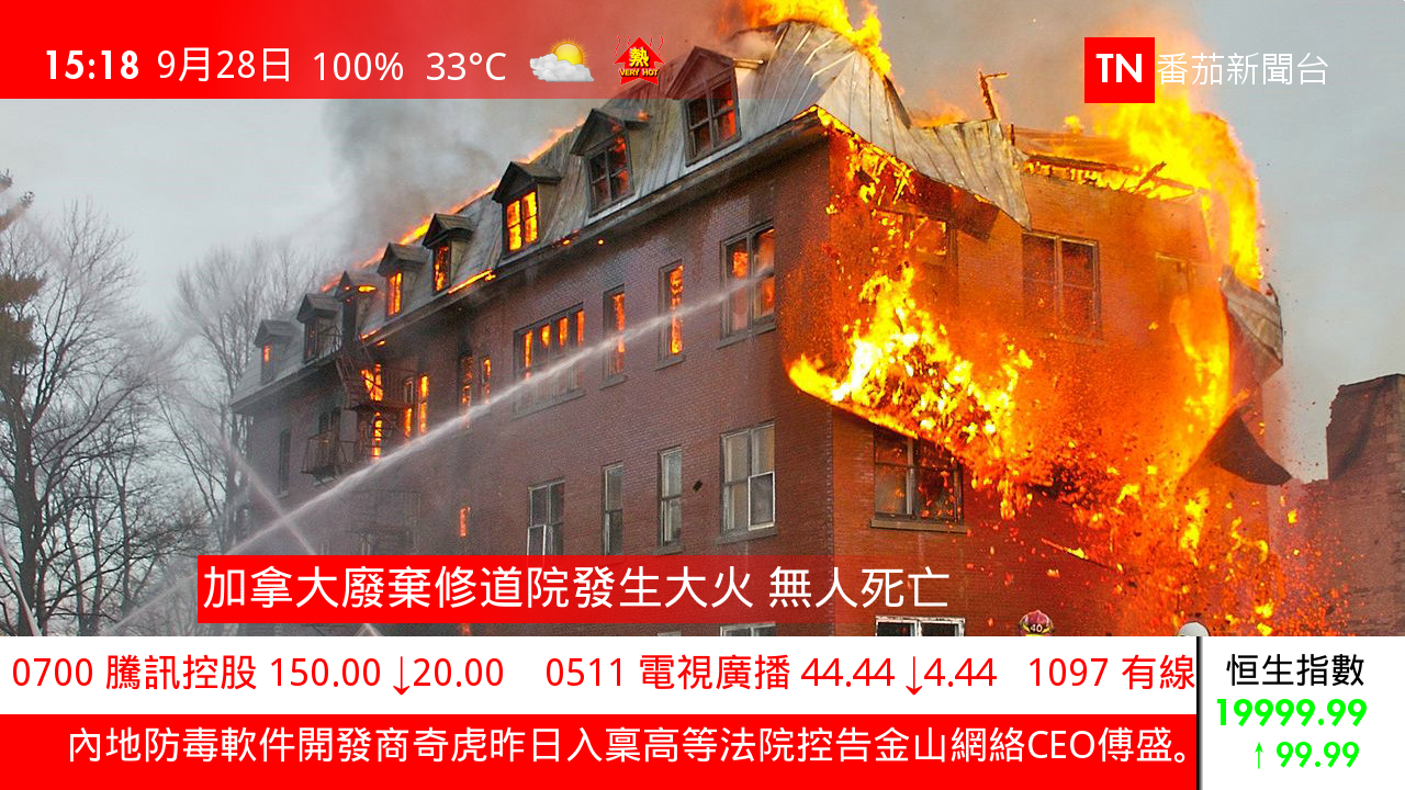 A Hong Kong news programme simulation image.